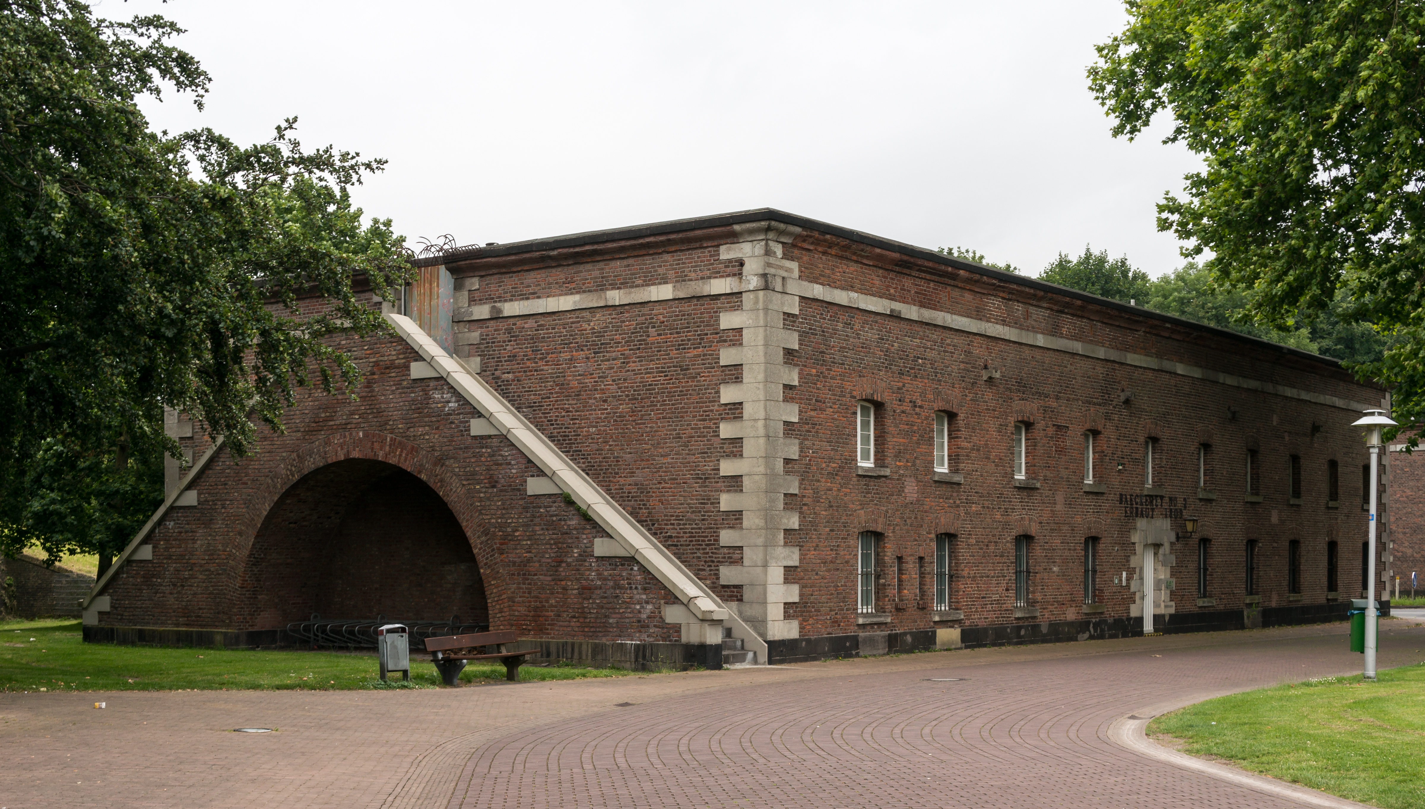 Citadel, Wesel, North Rhine-Westphalia, Germany